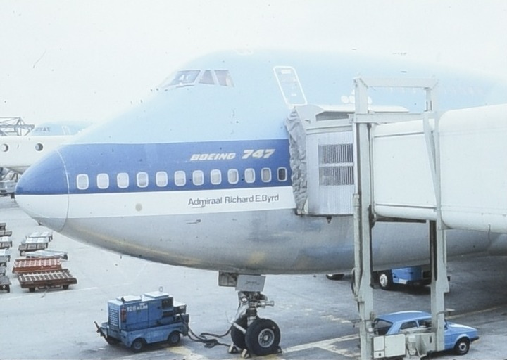 NEW YORK - airline KLM's Boeing 747 (also known as Jumbo Jet) - Course 1.7.1985